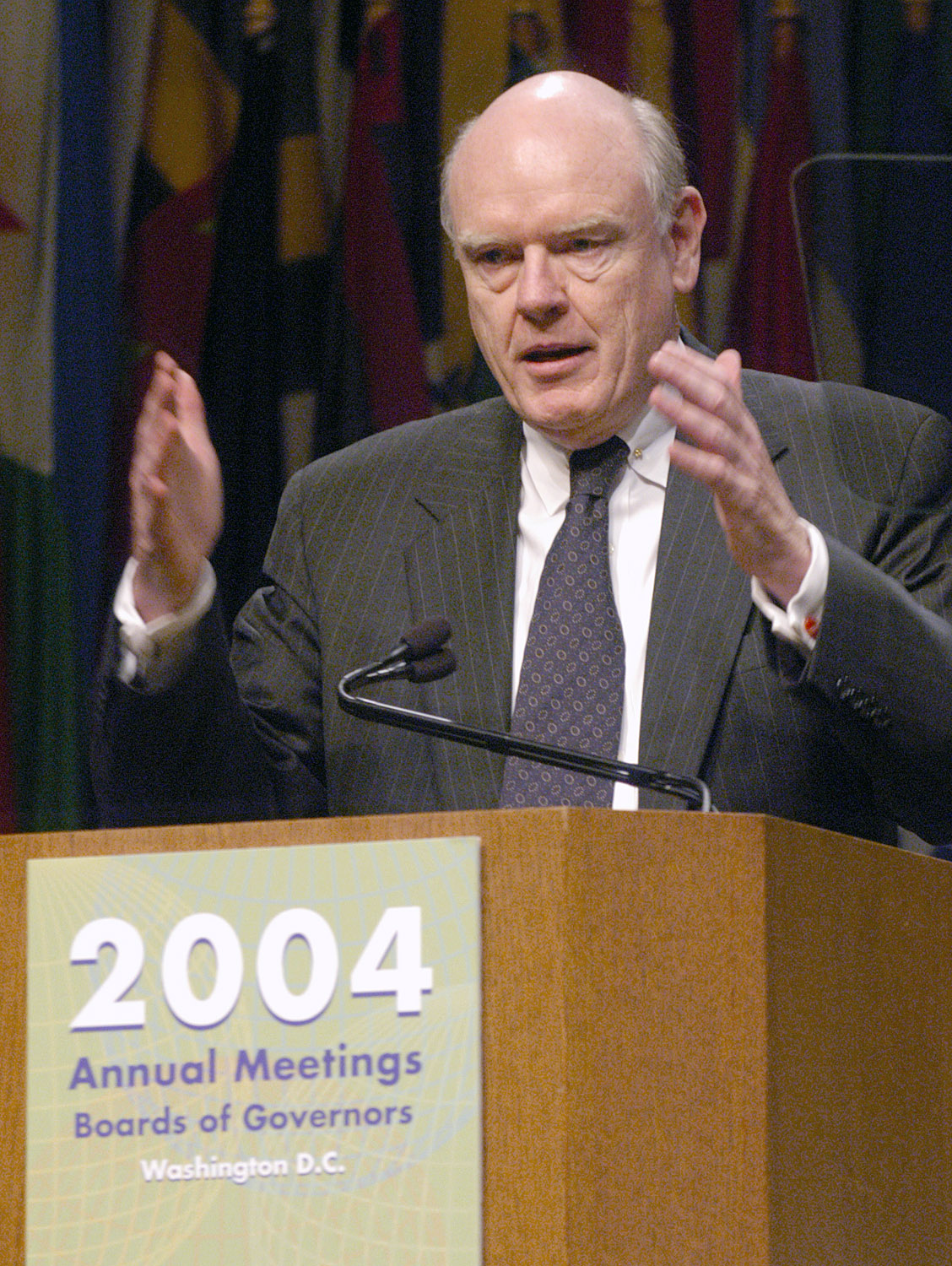 U.S. Treasury Secretary John Snow addresses the plenary at the IMF/World Bank Annual Meetings.